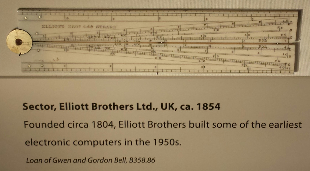 Sector manufactured by Elliott Brothers, now in The Computer Museum, Mountain View, California, US